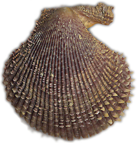 My own can of a Chlamy varia variation, Spain (Costa Brava).